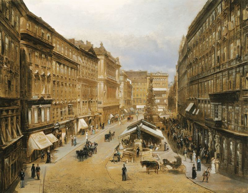 Am Graben in Wien